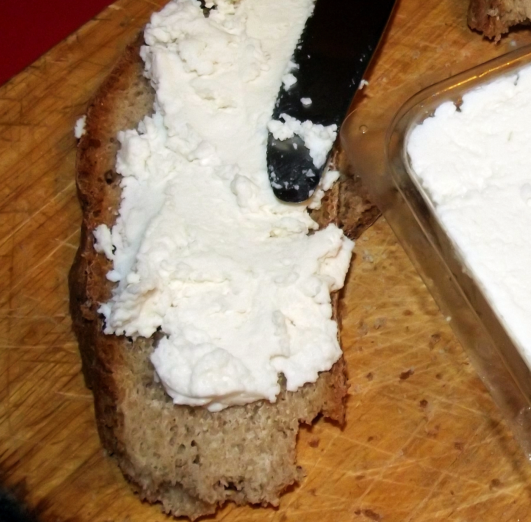 Bruss from Liguria (Mendatica) spread on a Triora bread slice